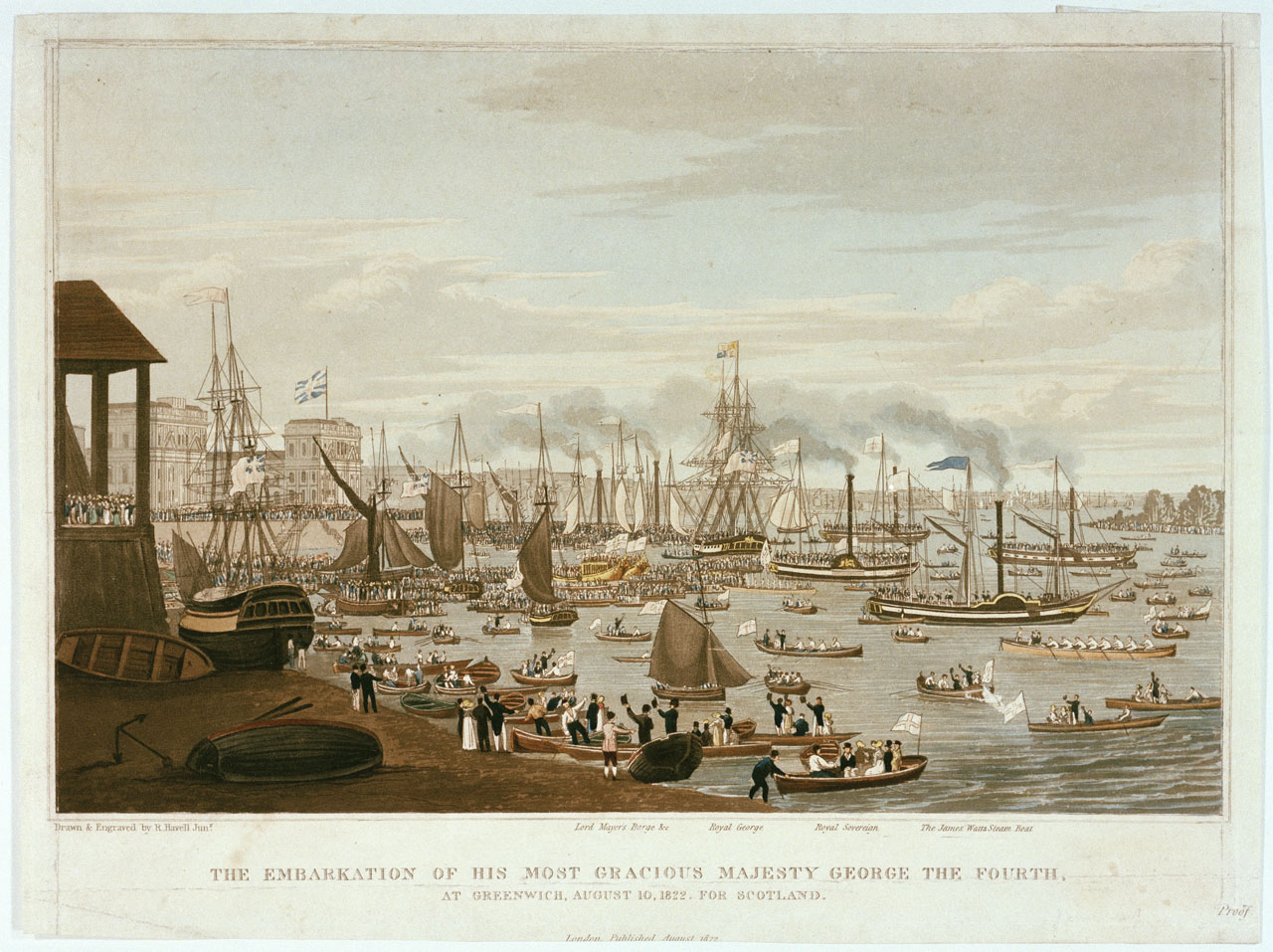 The embarkation of his most Gracious Majesty George the Fourth at Greenwich, August 10th, 1822 for Scotland. Lord Mayor's Barge &cc Royal George, Royal Sovereign. The James Watts Steam Boat View of Greenwich Reach from the east, showing the embarkation of George IV in the 'Royal George' yacht for Edinburgh, 10 August 1822, with the principal vessels identified below the image: the Lord Mayor's Barge, the 'Royal George' flying the royal standard, the 'Royal Sovereign' (royal yacht) and the accompanying 'James Watt, steam boat'. It was the first visit by a reigning monarch to Scotland since the time of Charles I.